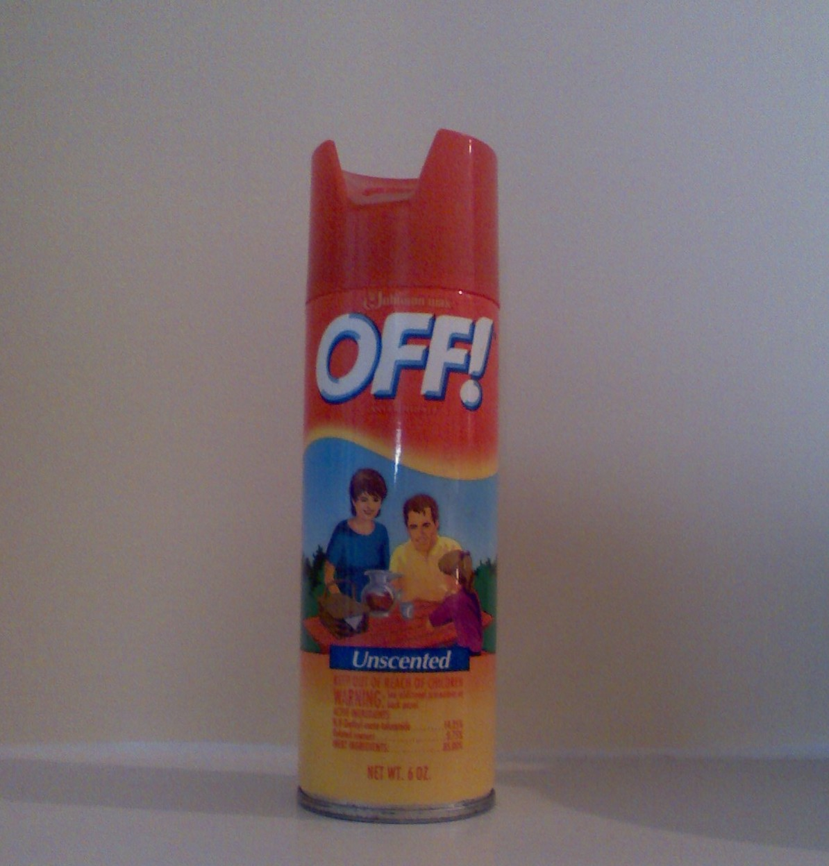 OFF insect repellant spray.